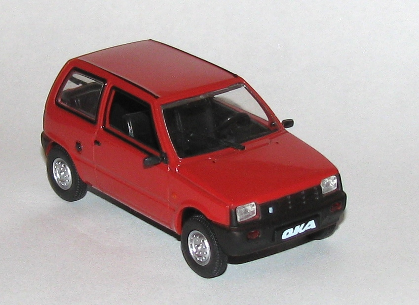 OKA 1111 1:43